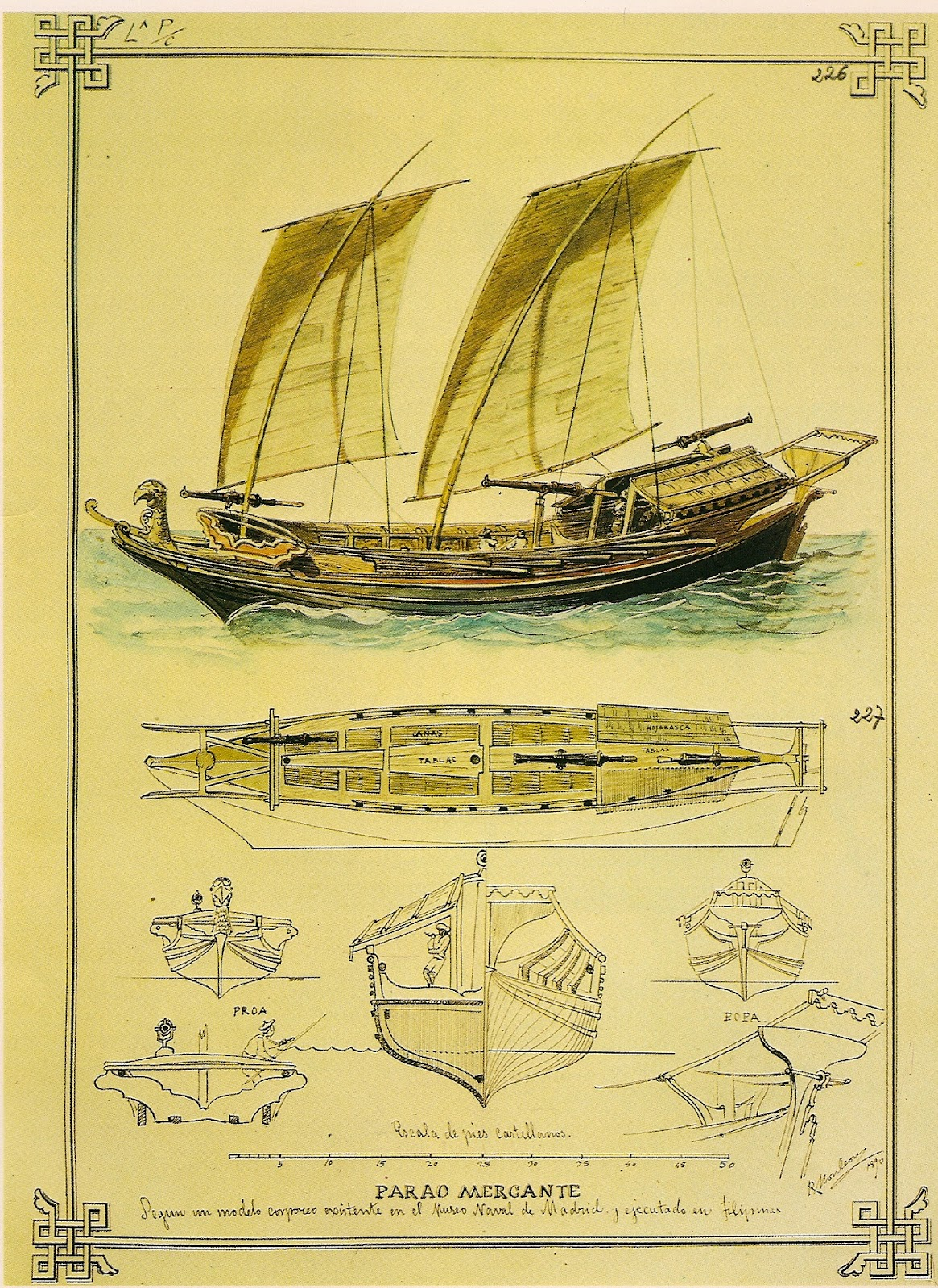 "Parao Mercante" - illustration of a biroco merchant ship from the Philippines (1890)